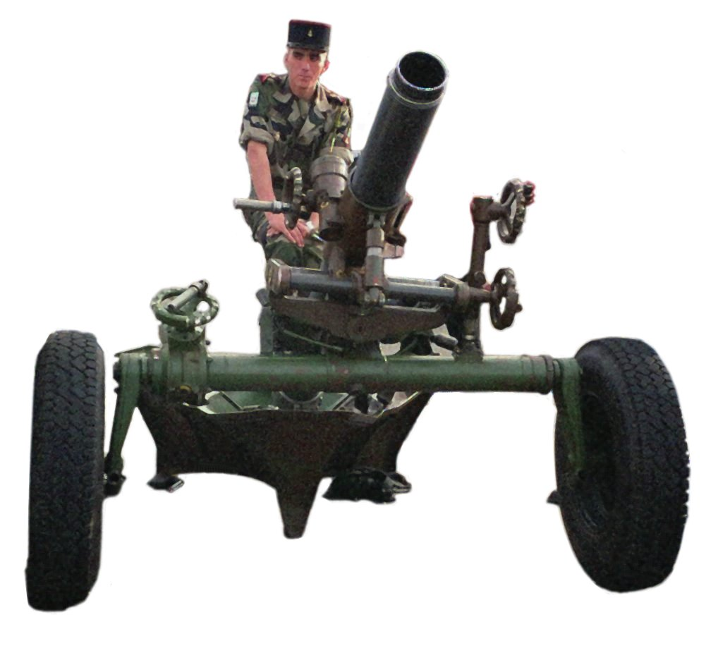 Nation/Defense days, Esplanade des Invalides, Paris, France, September 24-25, 2005